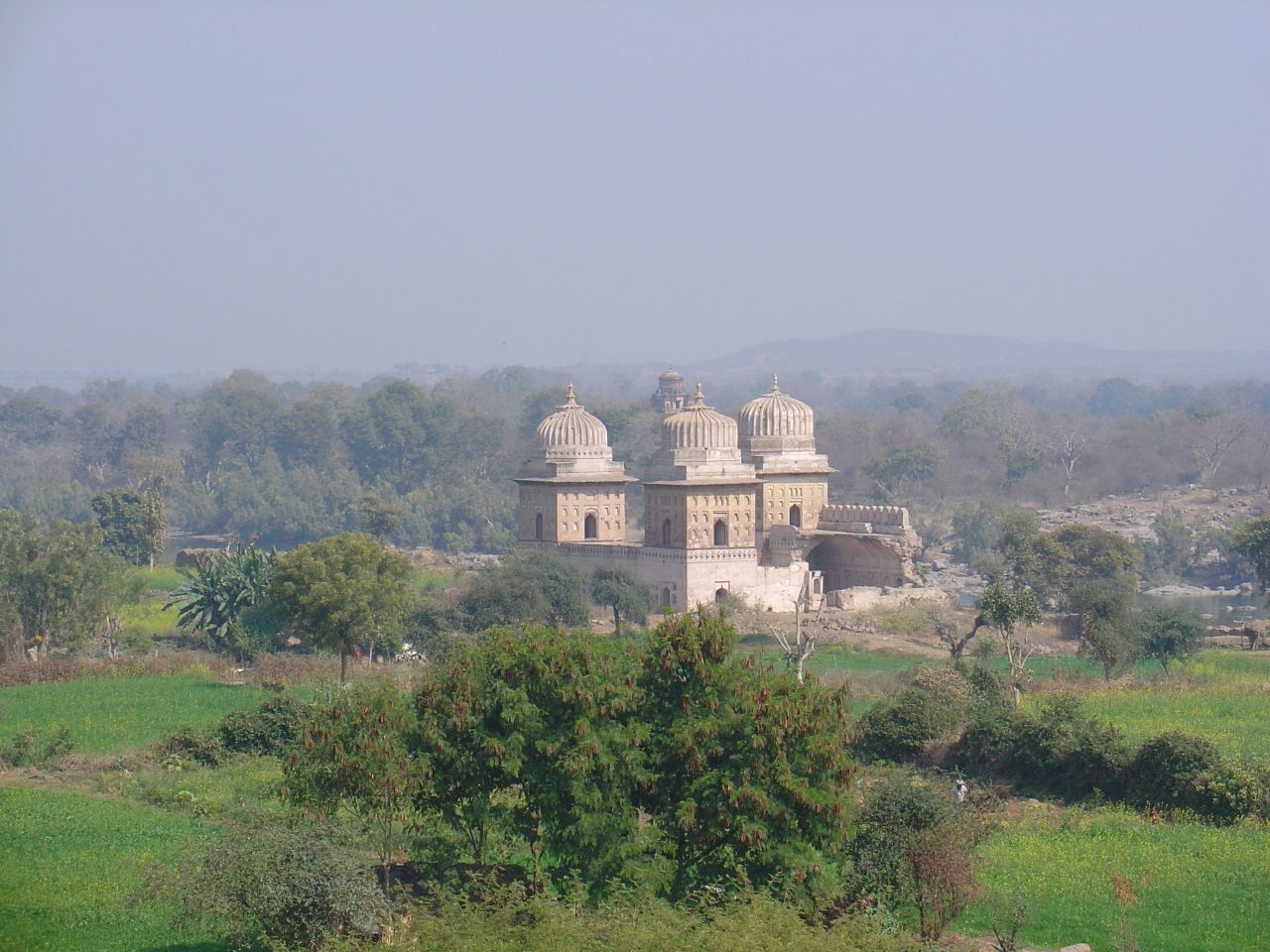 Temples in Orchha Countryside